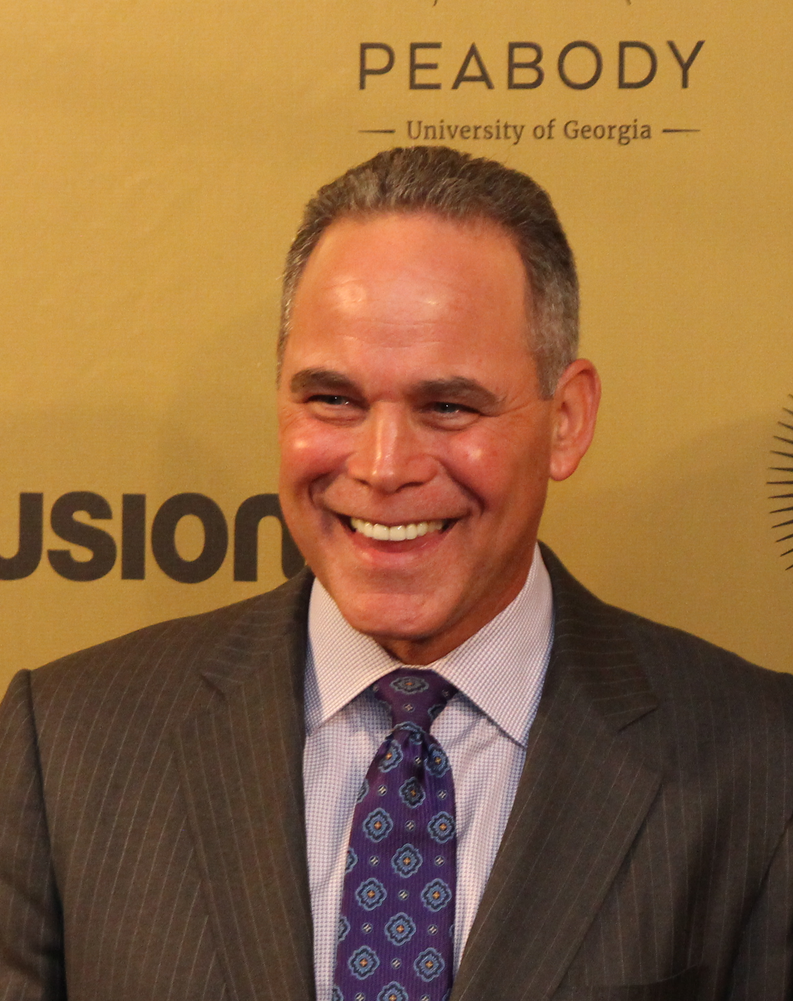 NEW YORK, NY - MAY 20: Jim Axelrod and Ashley Velie from CBS Evening News pose with an award during The 76th Annual Peabody Awards Ceremony at Cipriani, Wall Street on May 20, 2017 in New York City.